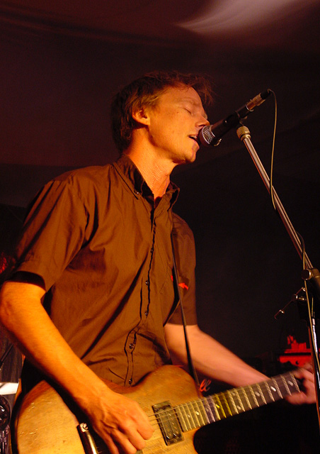 Photo of Greg Atkinson of Big Heavy Stuff taken at the Annandale Hotel, Saturday 3rd March 2001 by Andrew Bazar